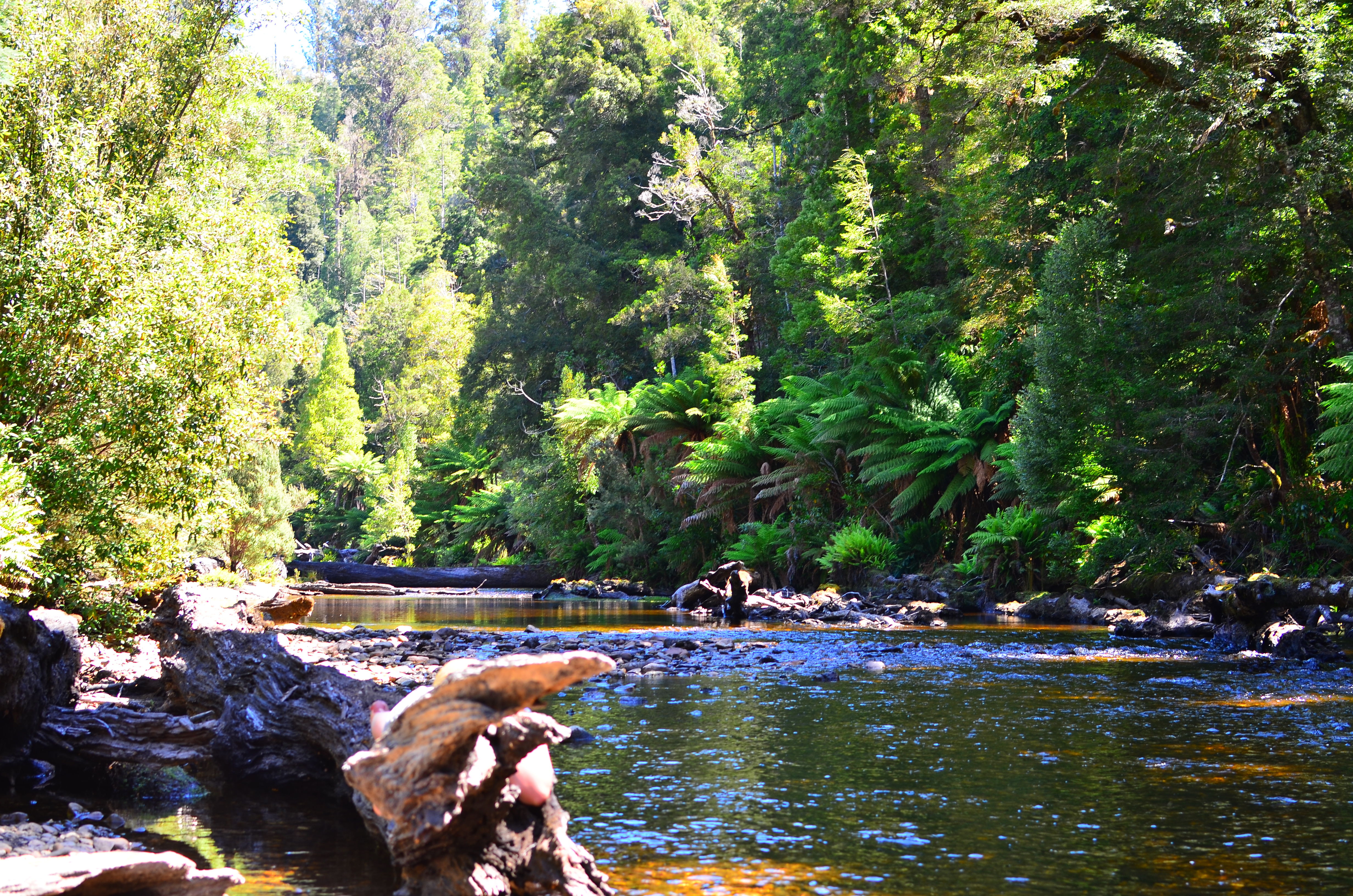 Mature mixed forest. Rainforest species beneath a canopy of E. regnans. The Styx River, Tasmania